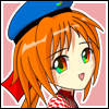 I have uploaded this file on behalf of its owner, C-Chan. He has allowed me to upload this file to wikipedia. The source was